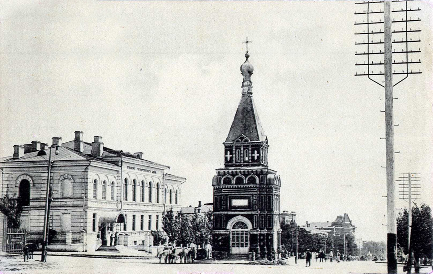 Mariupol church near old bank